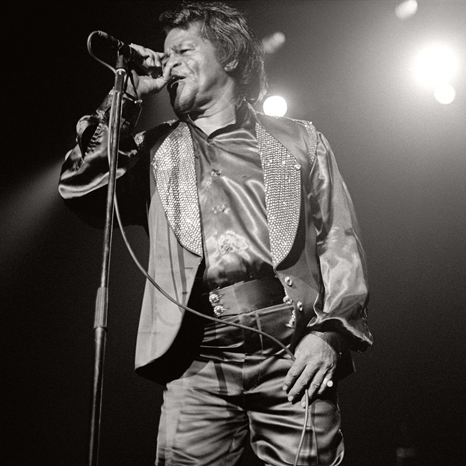 Bremen/Germany 1998